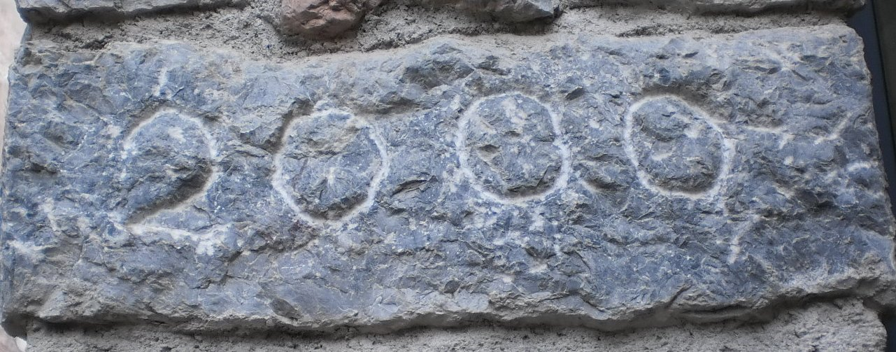 Facade of a house in the street of the Church of La Pobla de Lillet